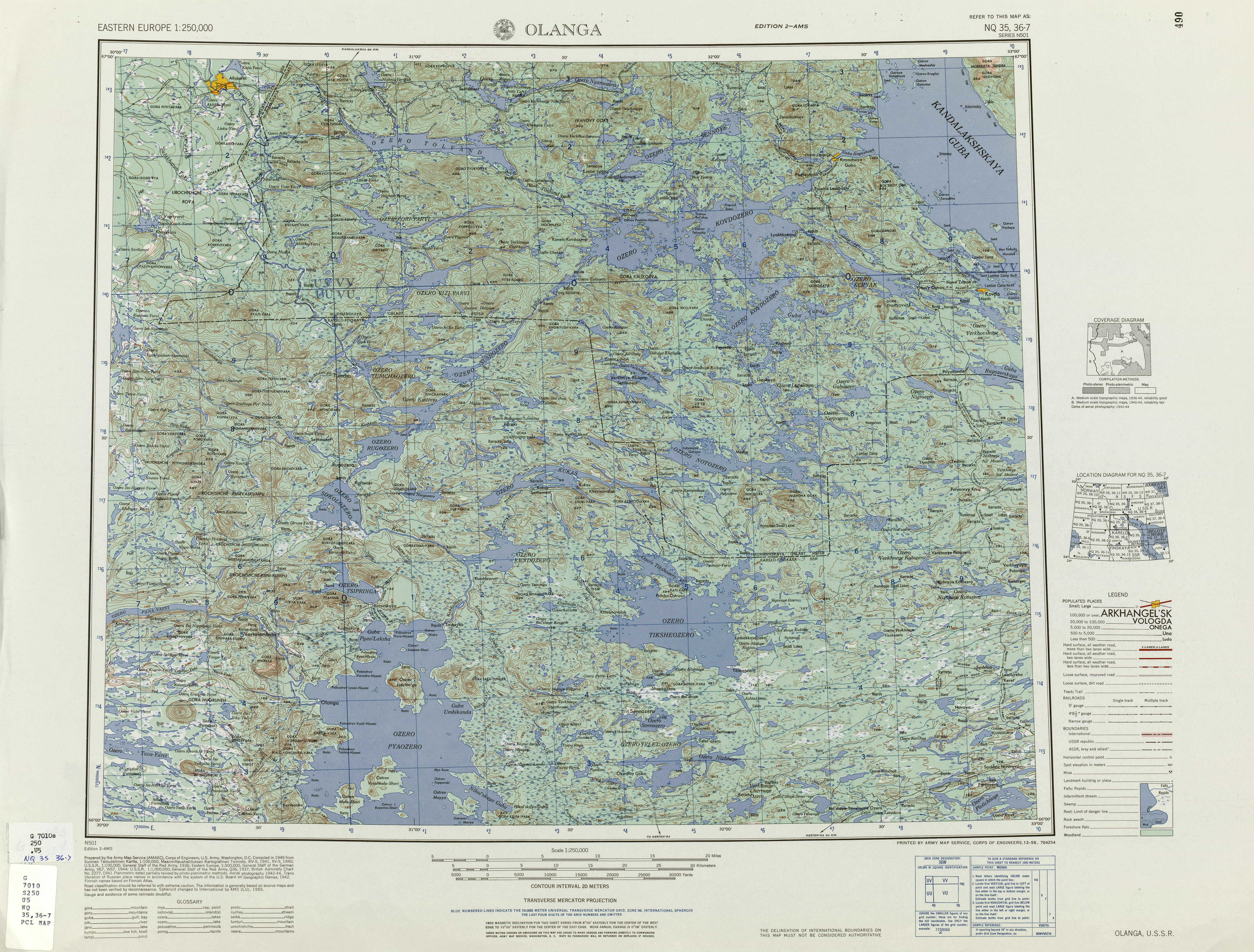 List from Eastern Europe AMS Topographic Maps. Series N501, U.S. Army Map Service, 1954